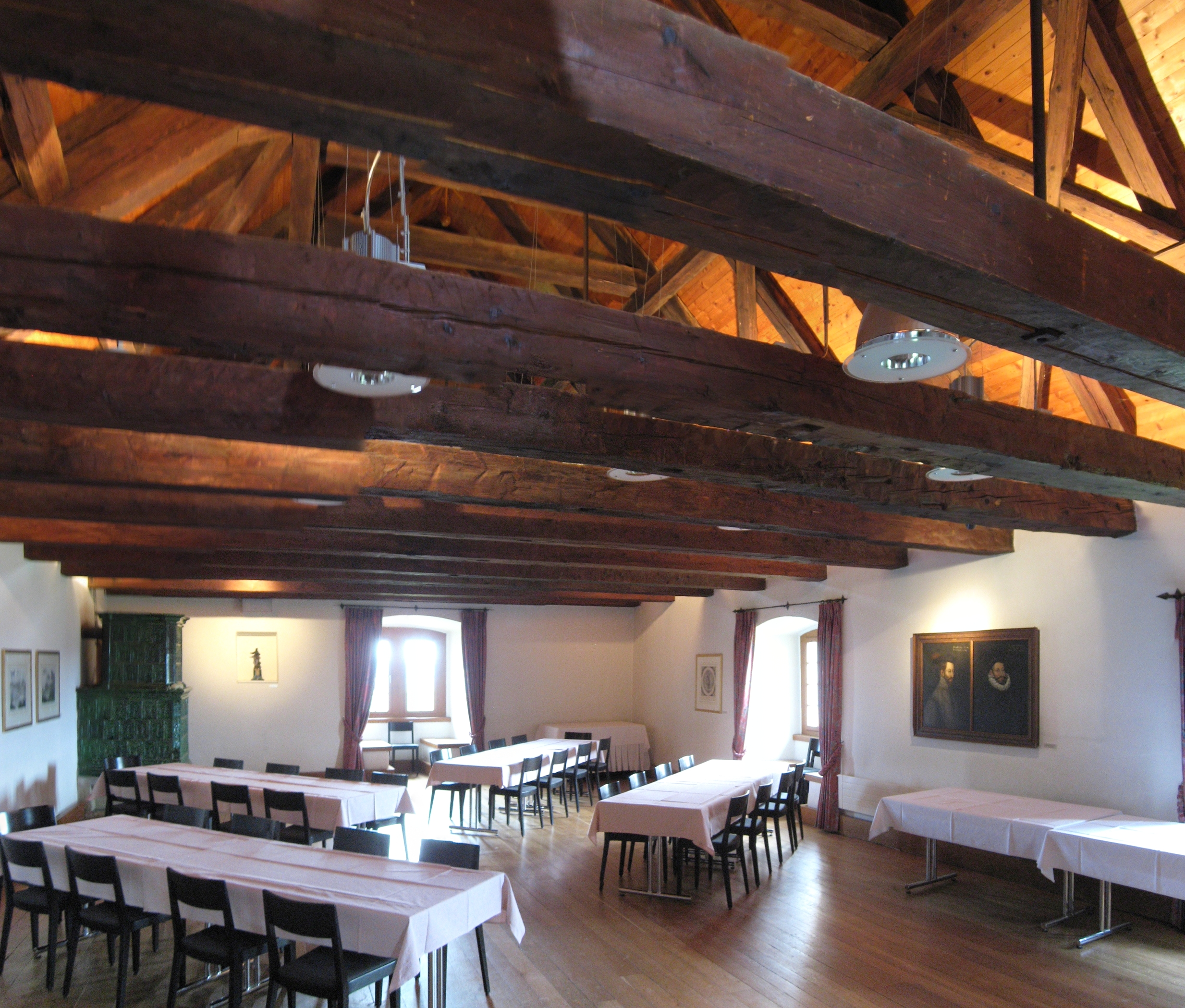 Interior of Habsburg Castle in Switzerland.